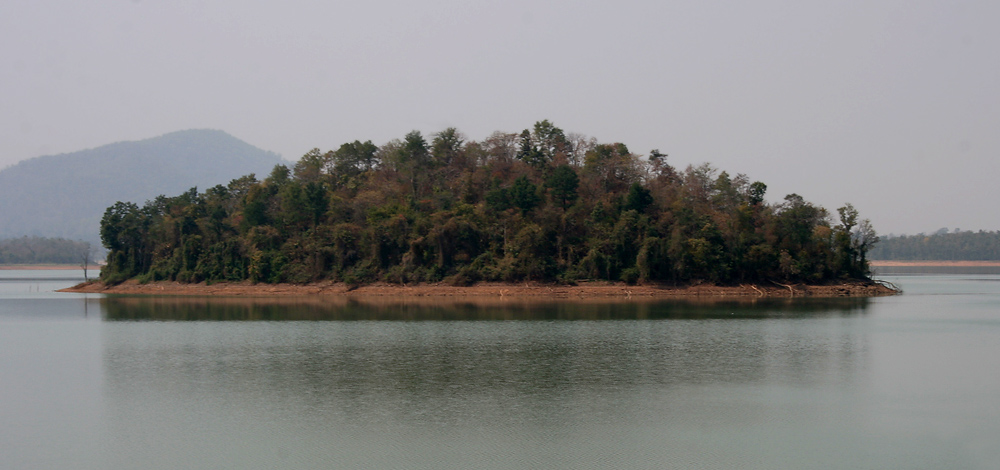 A view from Kinnerasani Dam in Kinnerasani Wildlife Sanctuary, Andhra Pradesh, India.